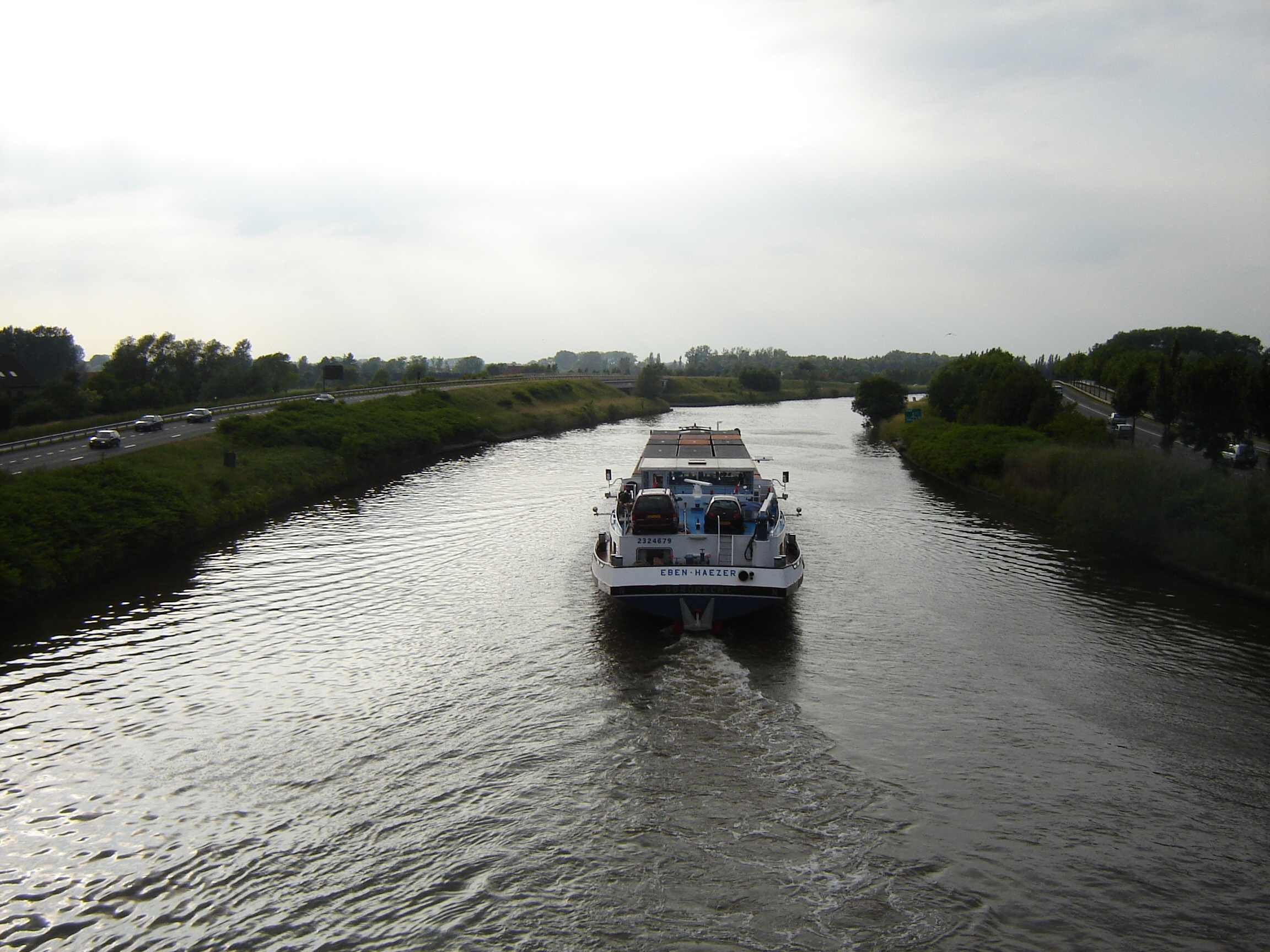 This picture shows the EBEN-HAEZER in the Ringvaart with the R4 road on both sides of the water. Image taken from the bridge with the Beukenlaan.